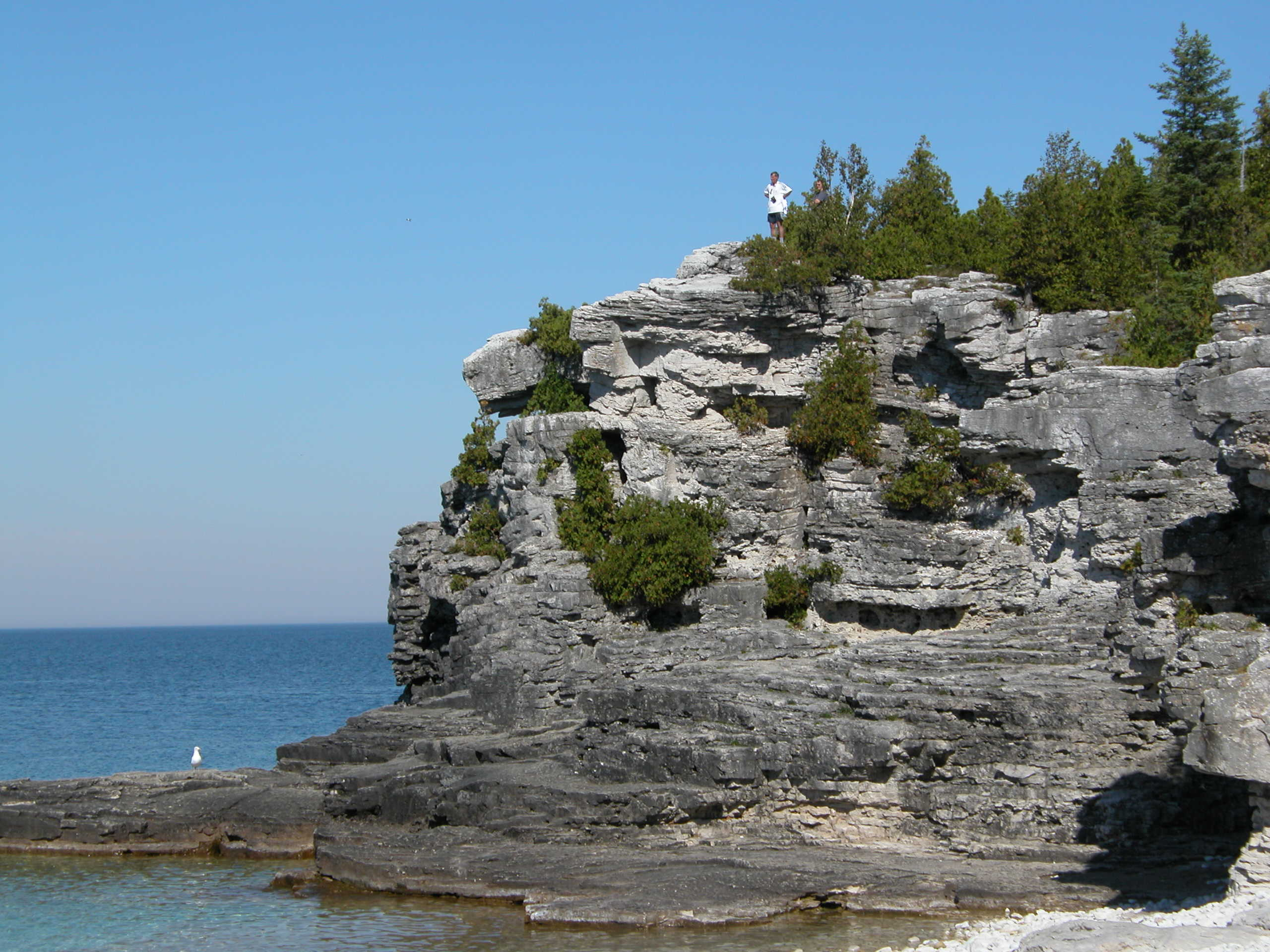 The Escarpment at Bruce Peninsula National Park - Photo by Shari Chambers